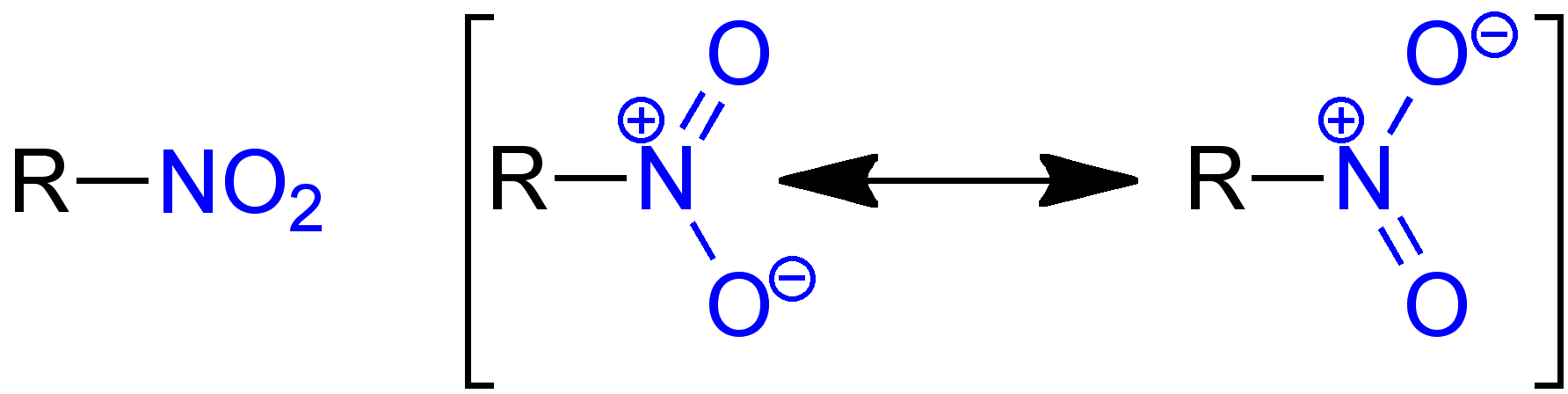 Nitro_Group_Structural_Formulae